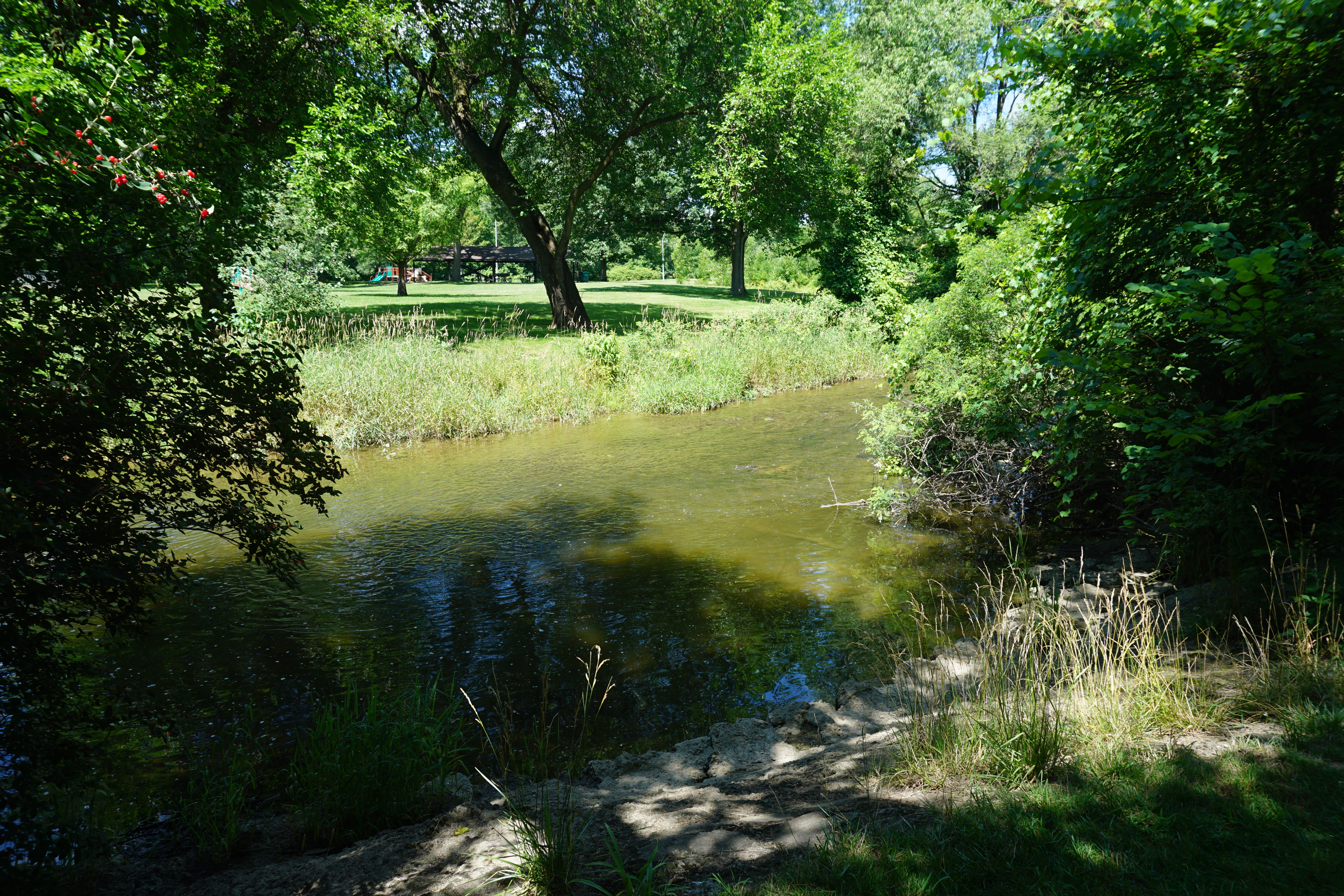 The Saline River along the Max Adler Trail at Curtiss Park in Saline, Michigan (United States).